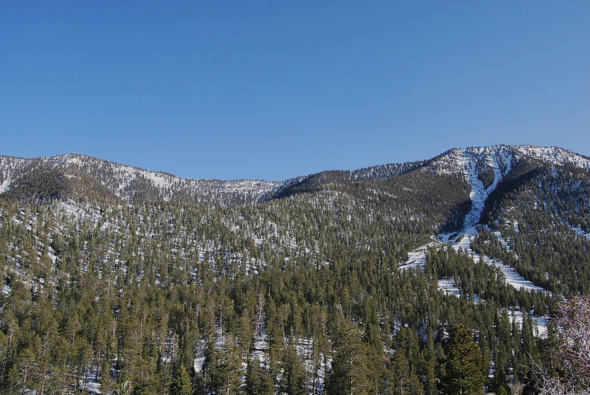 Snow-clad mountain slopes in the Spring Mountains, Nevada, USA.